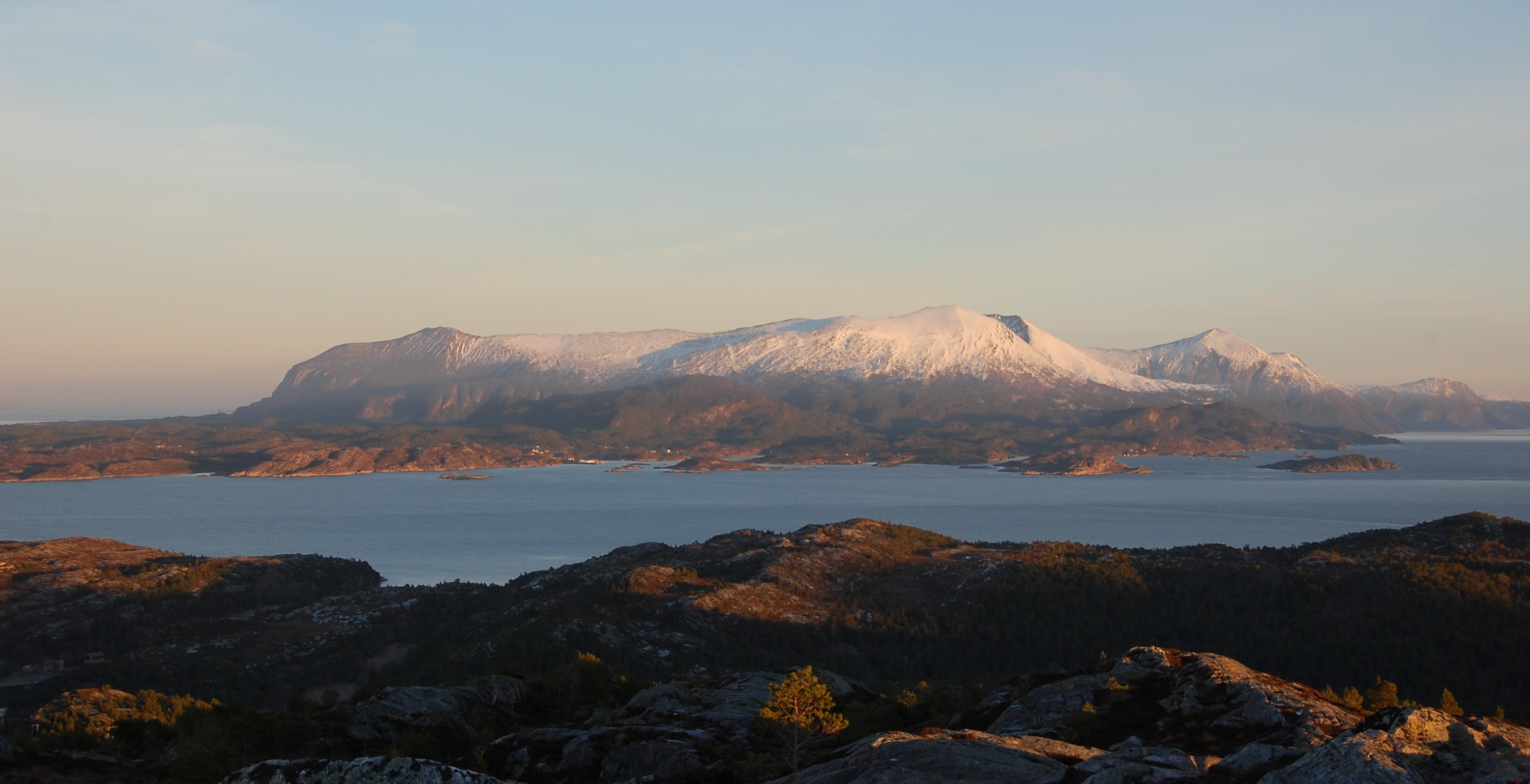 Mountains of Tustna seen from Kvernberget, Kristiansund.